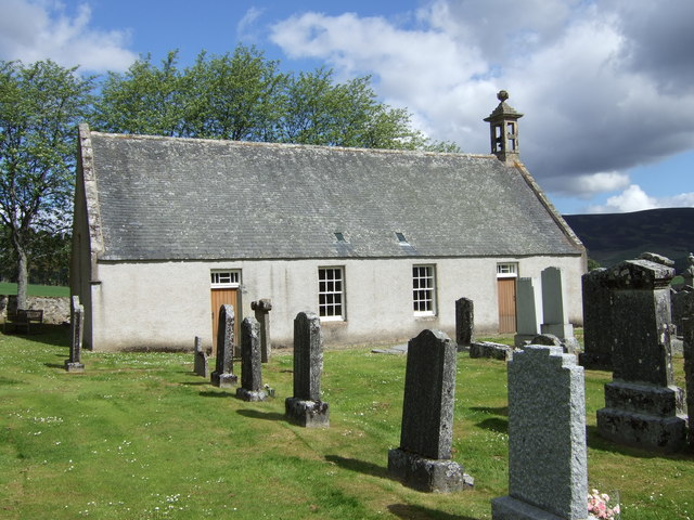 Old Kirk of Glenbuchat South side.